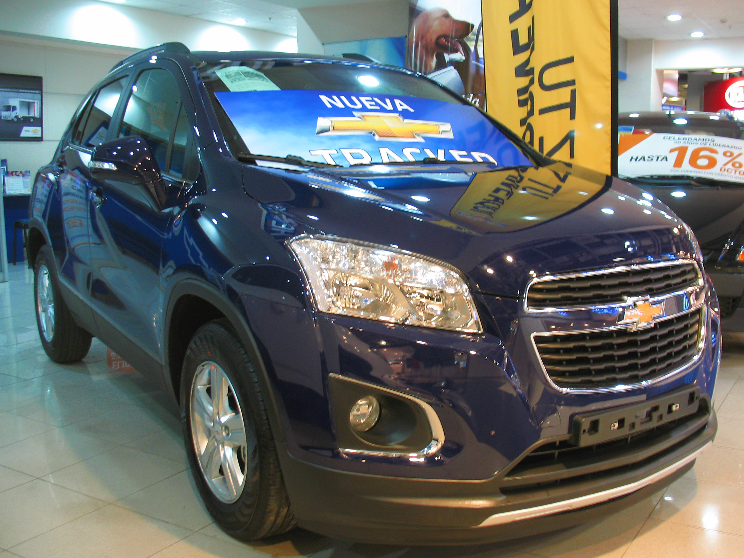 Chevrolet Tracker LT 1.8 AWD 2013